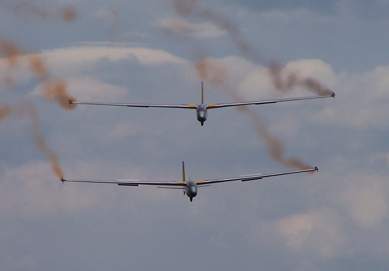 Let L-13 Blanik OE-0758 OE-0739 EDMT 20080719